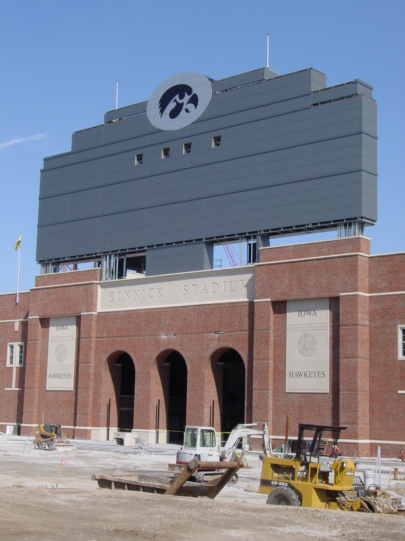 Kinnick Stadium renovations in the south end zone. Taken on July 21, 2005.